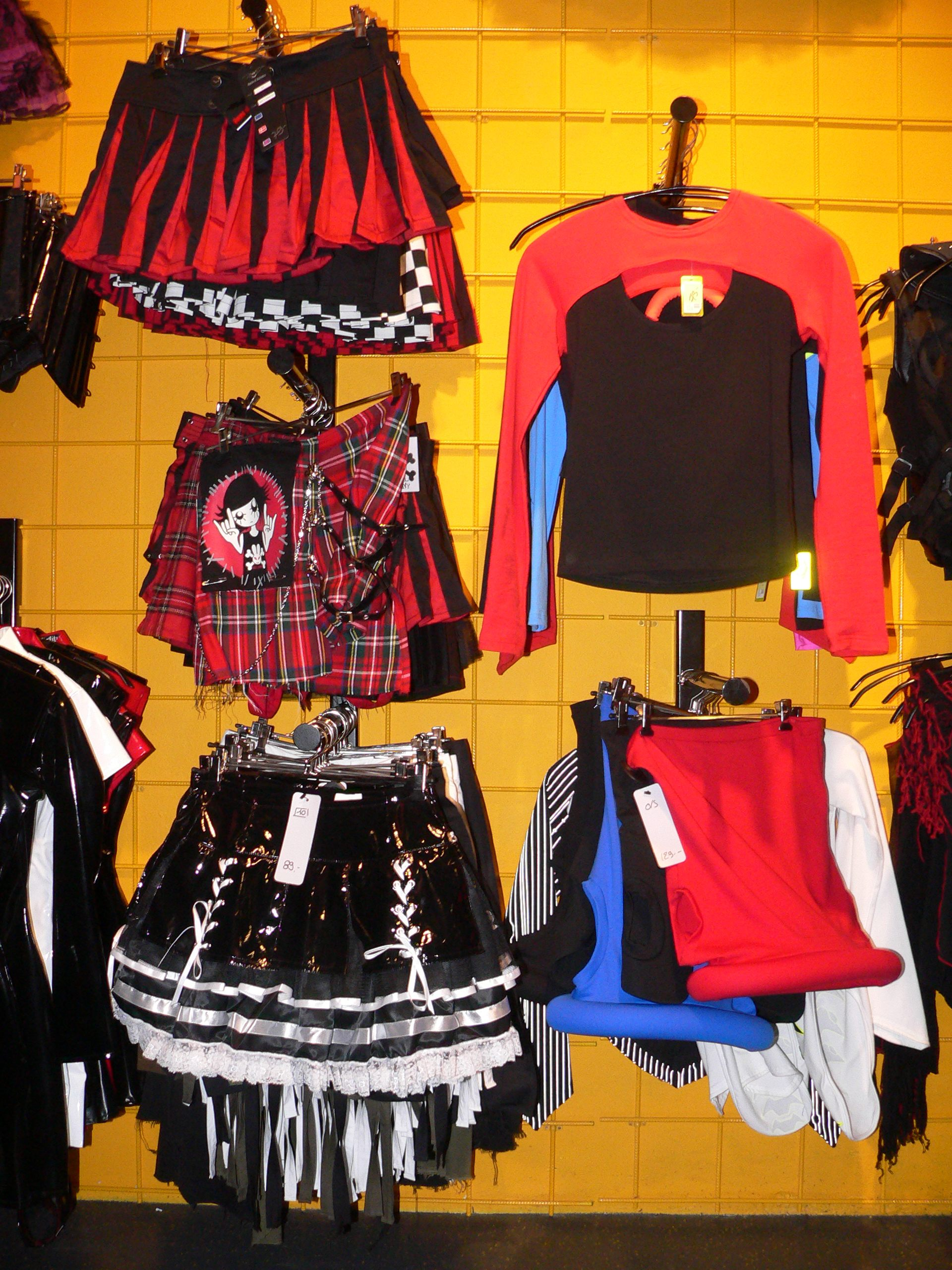 Elements of Gothic fashion None of these photographs would have been possible without the kind autorisation of the store Maniak at the Flon in Lausanne, to which we express our thanks.